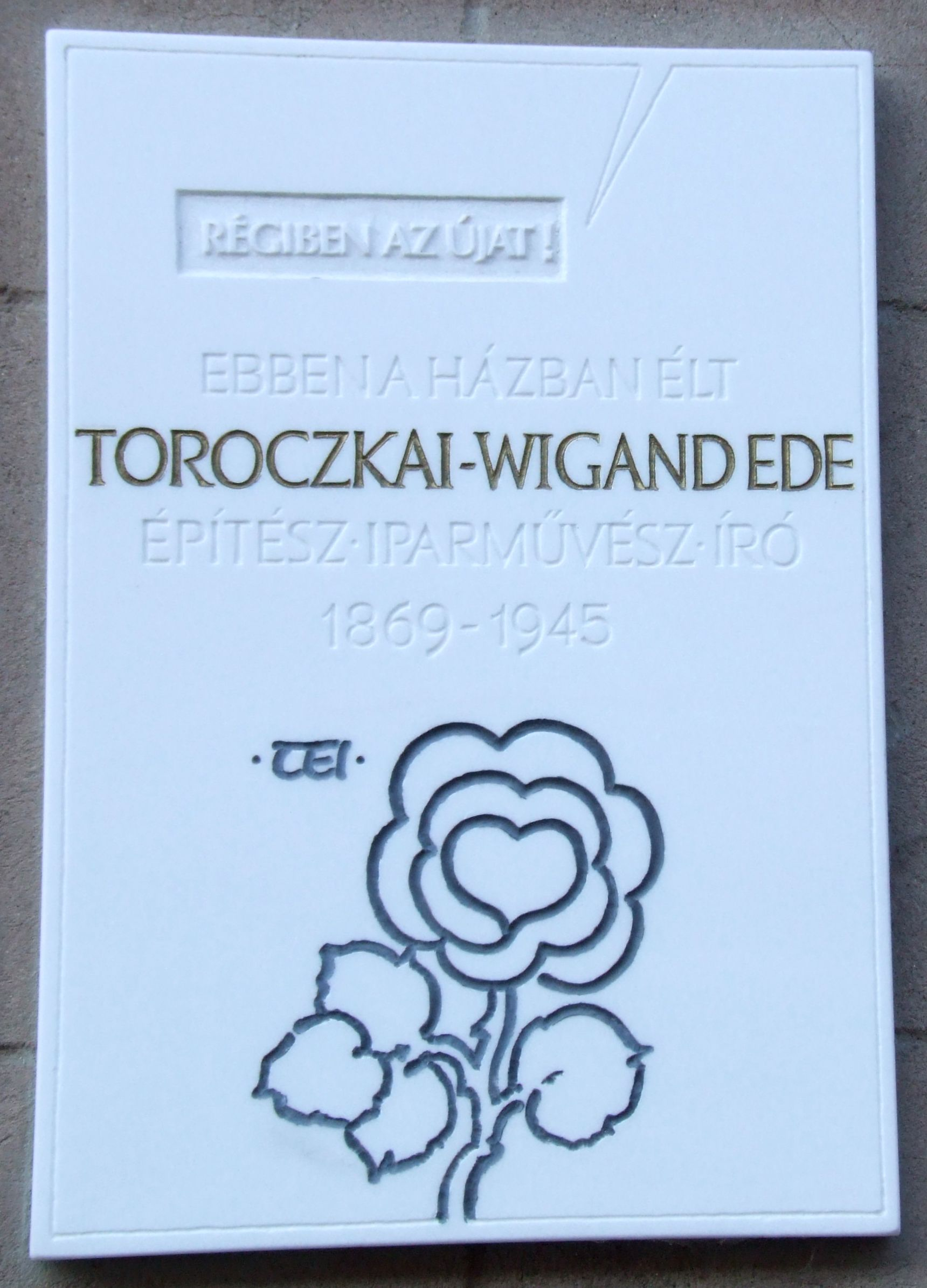 Ede Toroczkai Wigand commemorative plaque in Budapest District I, Úri Street No 17.